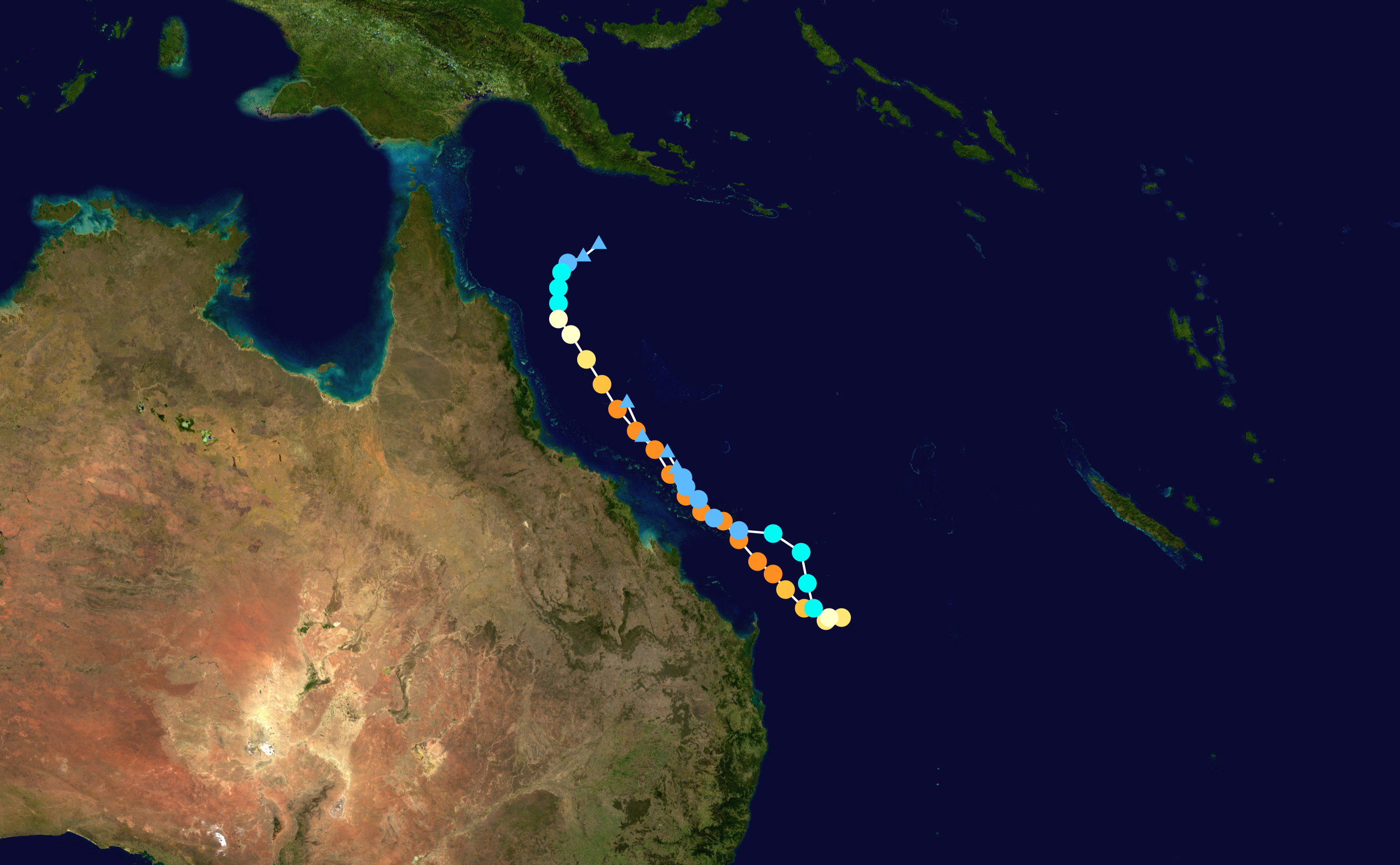 Track map of Severe Tropical Cyclone Hamish of the 2008-09 Australian region cyclone season. The points show the location of the storm at 6-hour intervals. The colour represents the storm's maximum sustained wind speeds as classified in the Saffir–Simpson scale (see below), and the shape of the data points represent the nature of the storm, according to the legend below. Saffir–Simpson scale Tropical depression≤38 mph≤62 km/h Category 3111–129 mph178–208 km/h Tropical storm39–73 mph63–118 km/h Category 4130–156 mph209–251 km/h Category 174–95 mph119–153 km/h Category 5≥157 mph≥252 km/h Category 296–110 mph154–177 km/h Unknown Storm type Tropical cyclone Subtropical cyclone Extratropical cyclone / Remnant low / Tropical disturbance / Monsoon depression